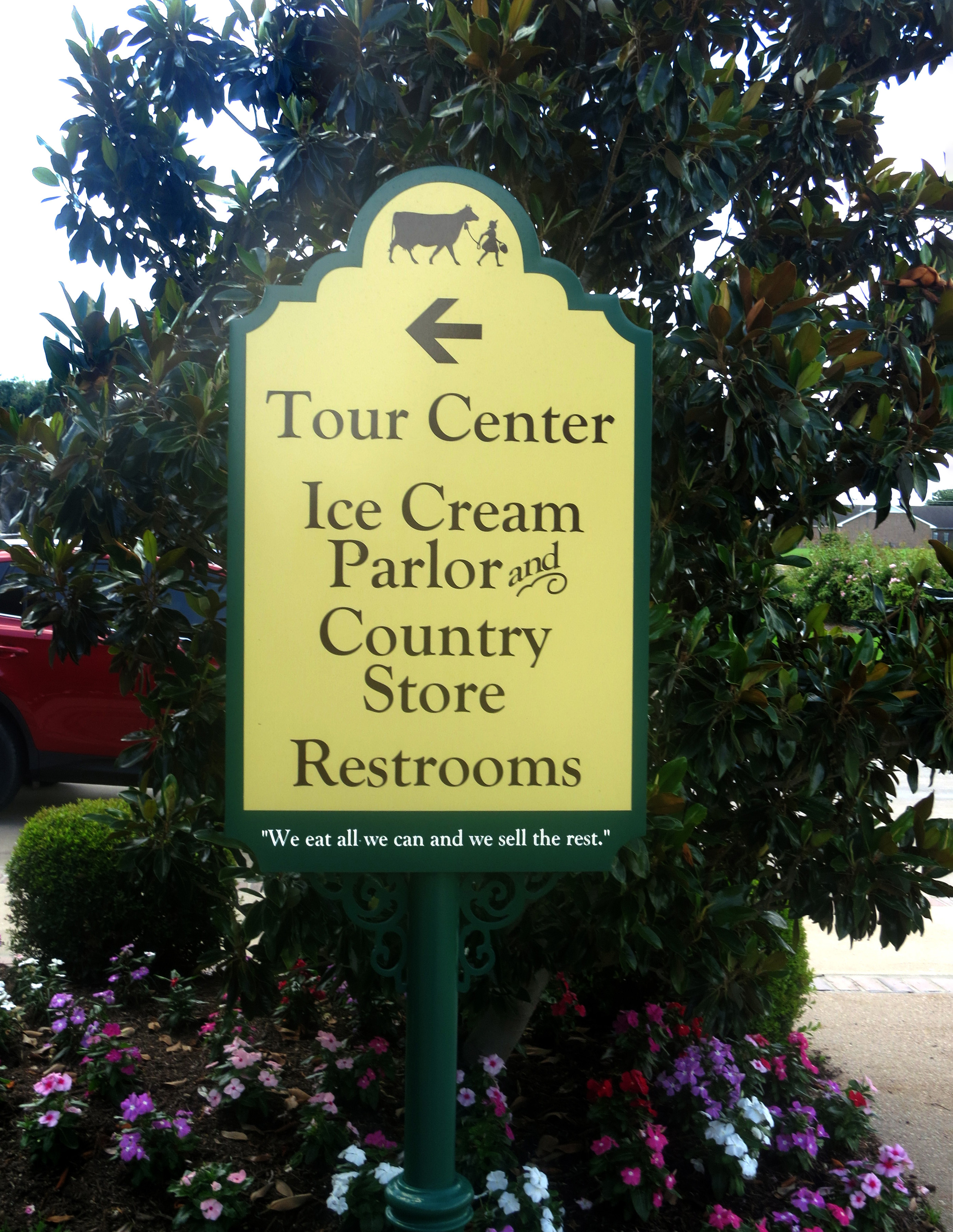 Blue Bell Creameries sign in Brenham, Texas